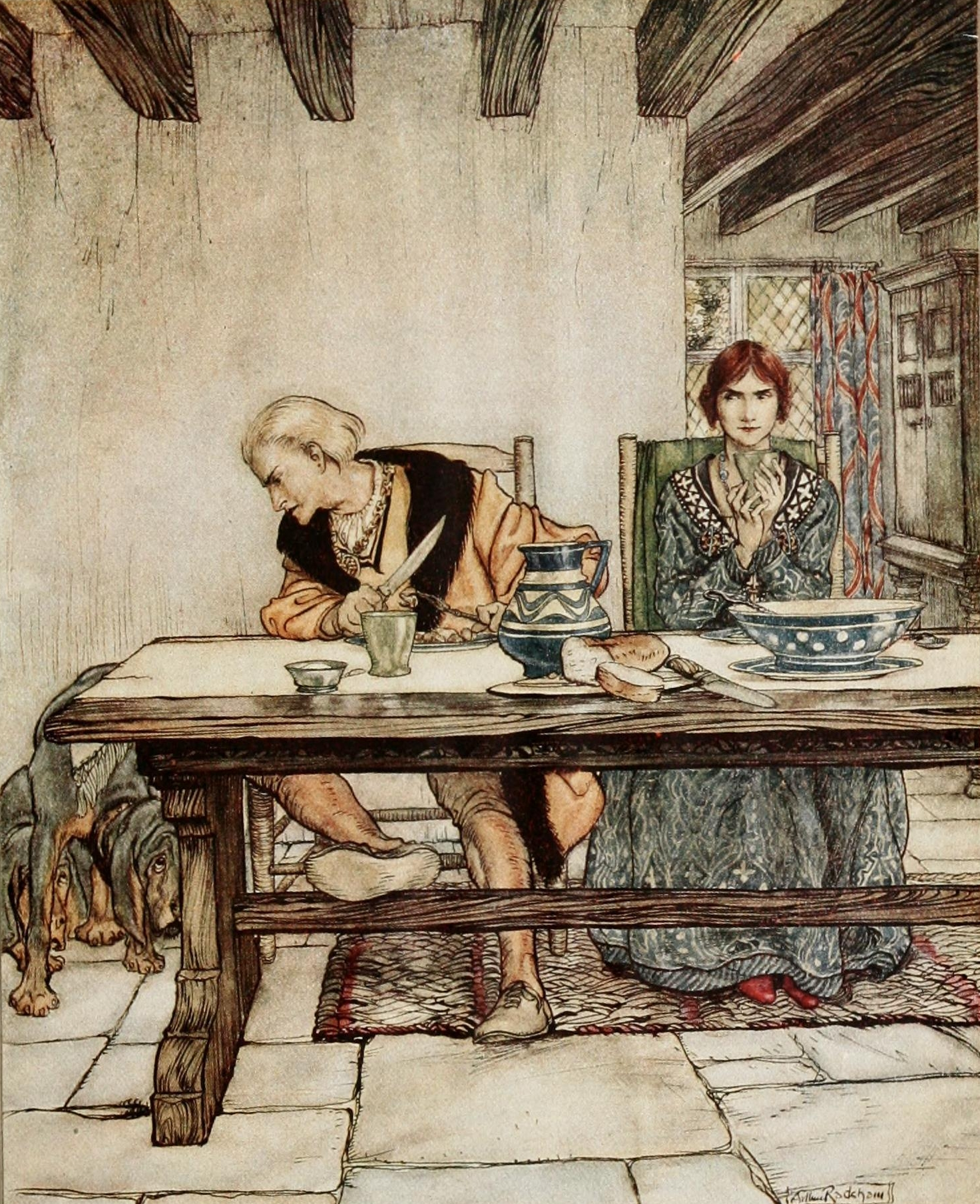 "Lord Randal", by Arthur Rackham. This is an illustration from Some British ballads, published in about 1919.